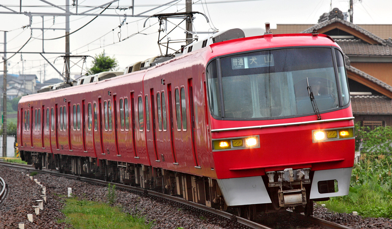 Meitetsu 1380 series 4-car EMU set 1384 approaching Unumajyuku Station